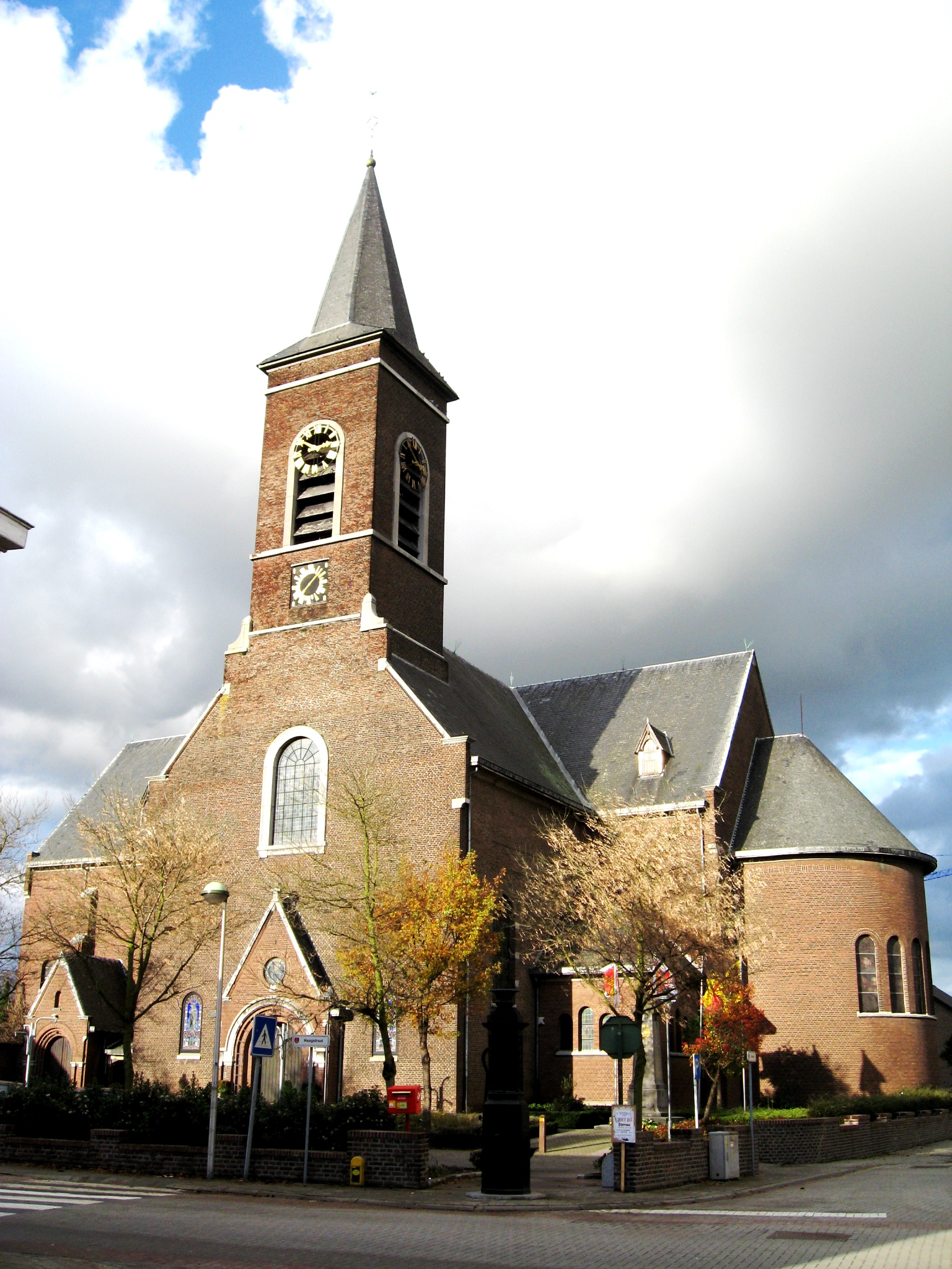 Church of the Saints Monulph and Gondulph in Rotem, Dilsen-Stokkem, Limburg, Belgium